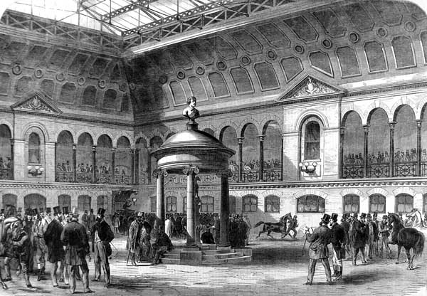 Tattersall's in Knightsbridge, London, (1865)The First Auction at Tattersall's New Buildings ILN